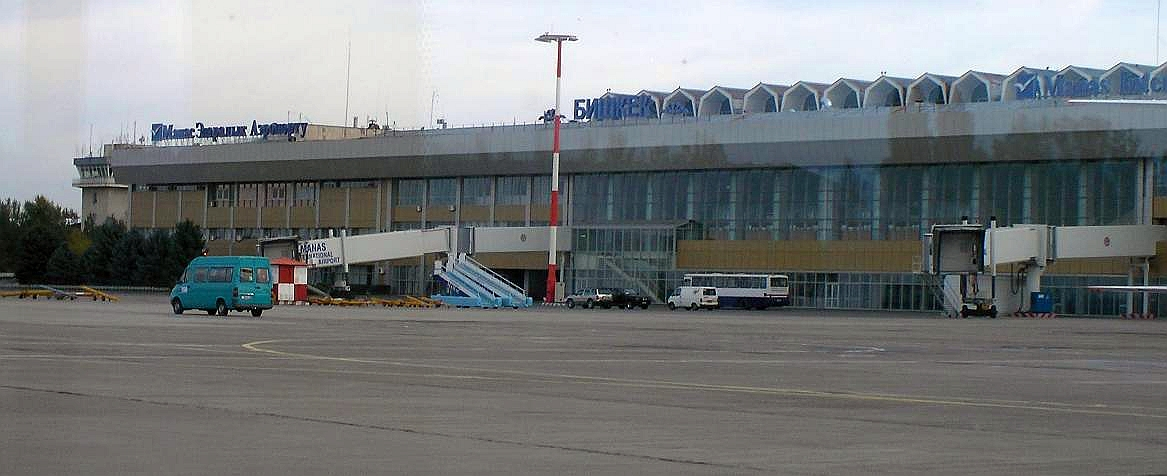 Manas International Airport (IATA: FRU), serving the capital of Kyrgyzstan, Bishkek (known as Frunze prior to 1991).